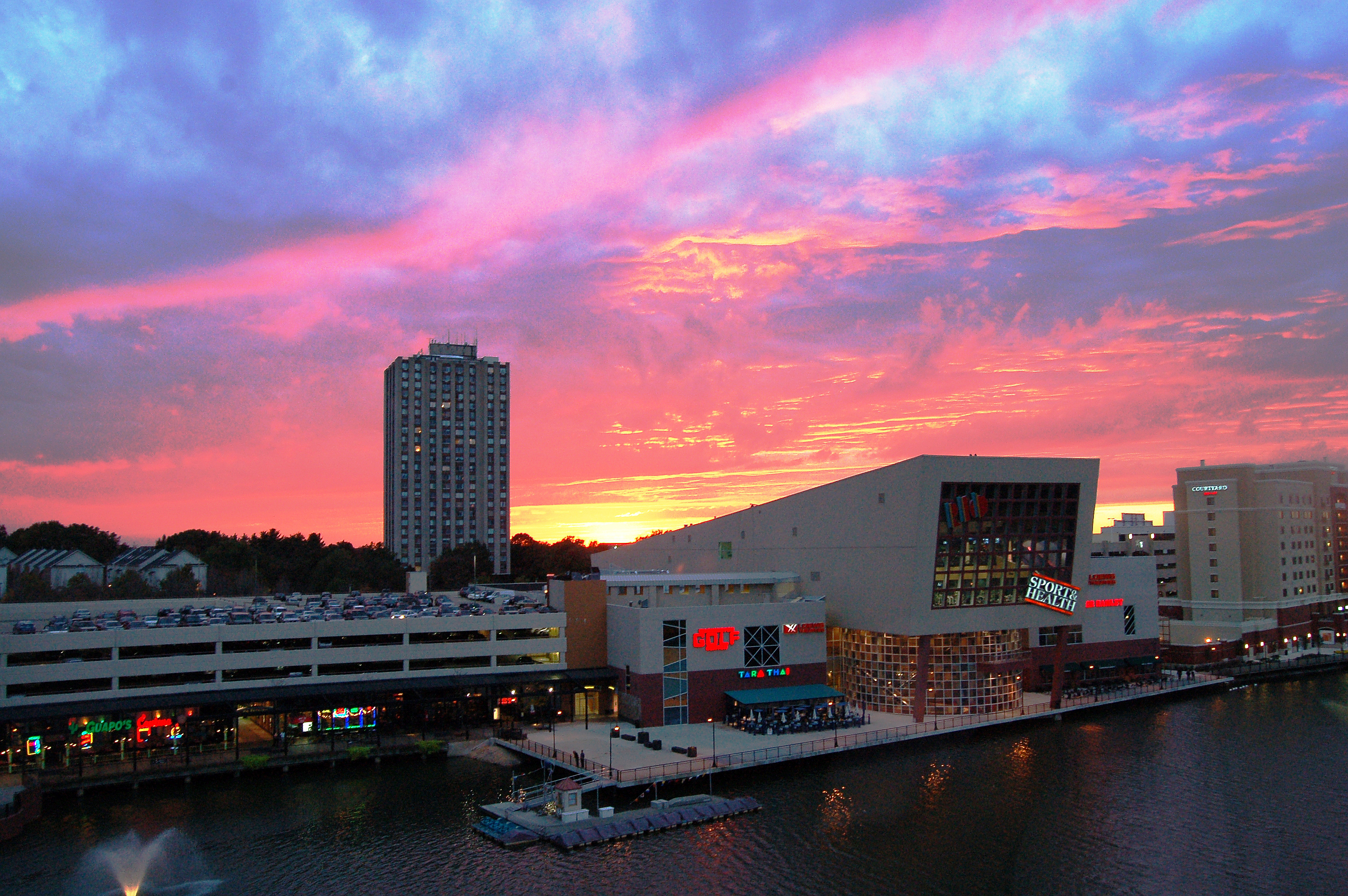 View from hotel room of Gaithersburg, Maryland